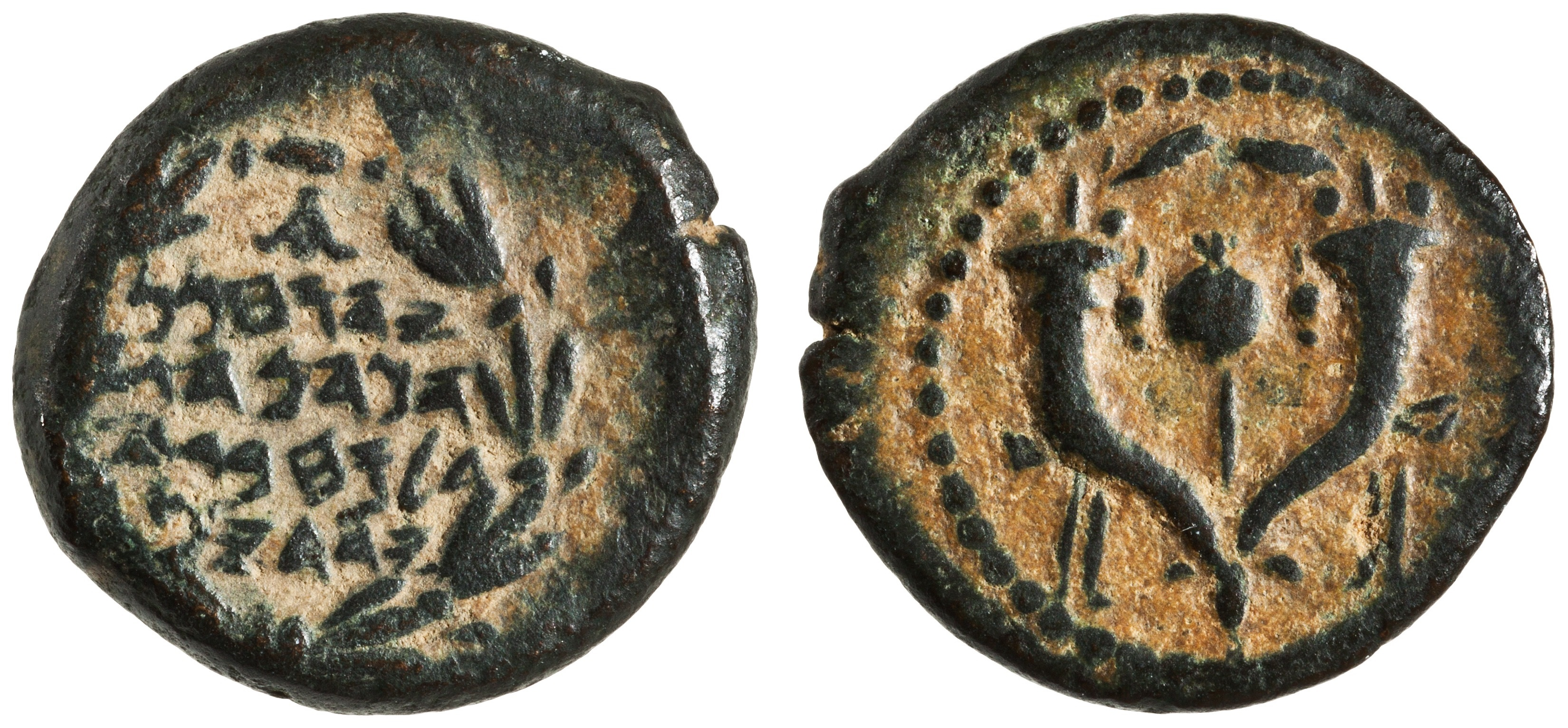 Bronze prutah of John Hyrcanus I, Jerusalem, 135 BC - 104 BC. 2013.63.15